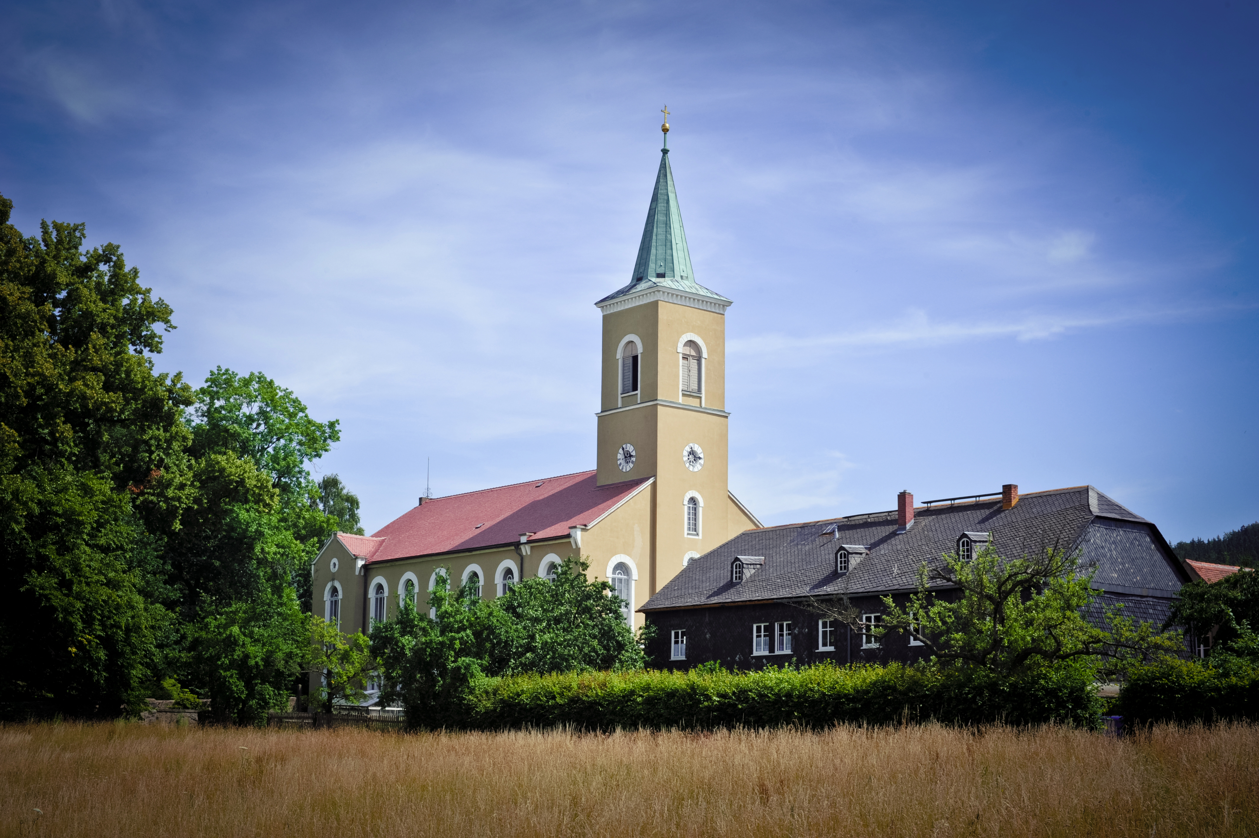 Church of Crostau